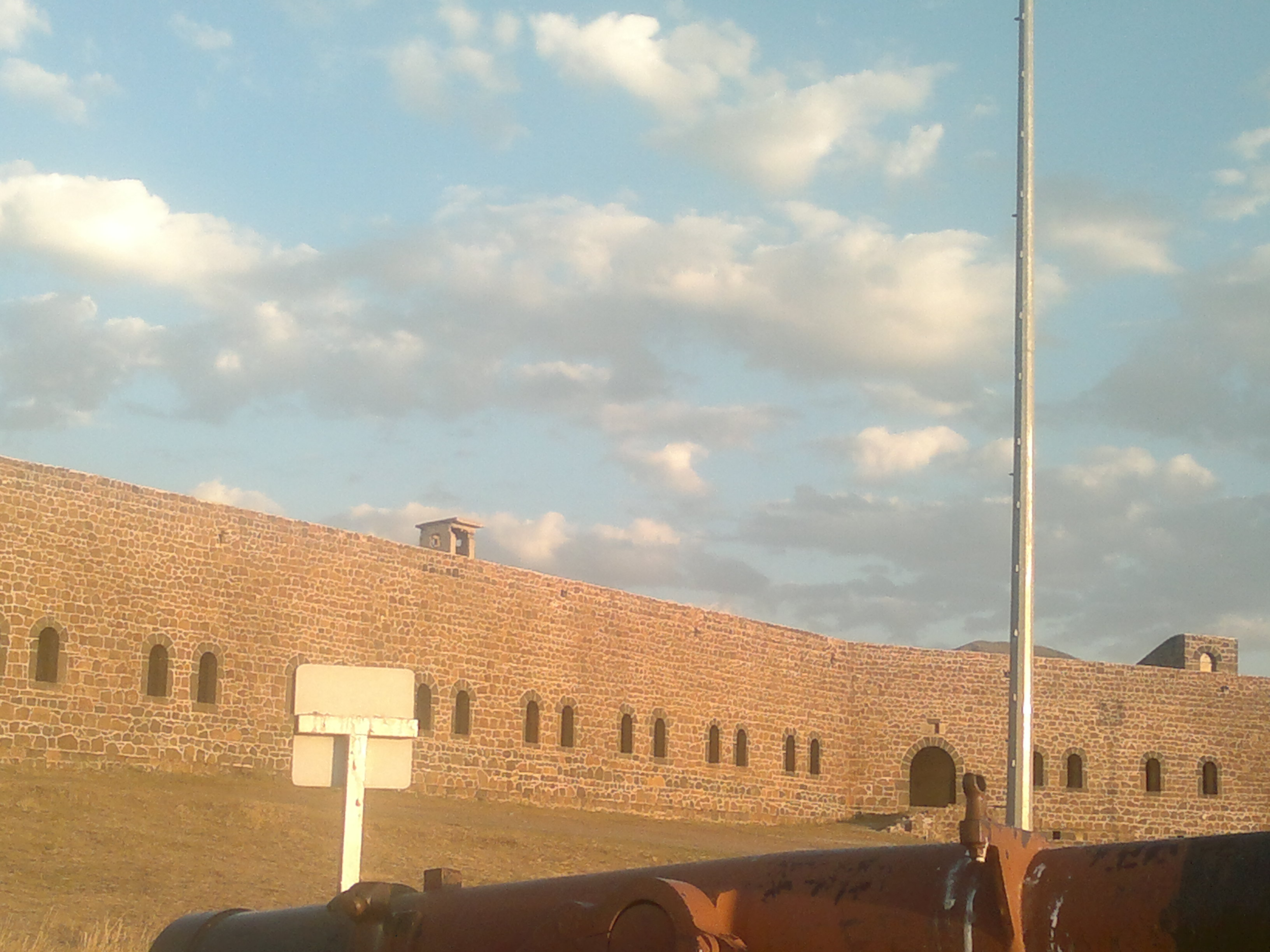 "Erzurum Mecidiye Redoubt (Erzurum Tabyaları)" in Erzurum, Turkey.